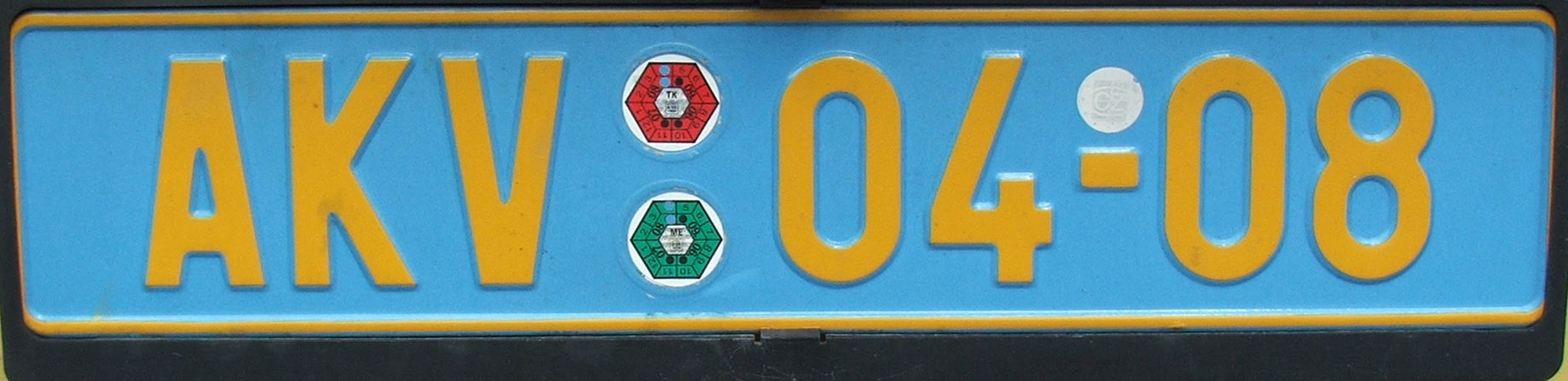 Old Czechoslovak system of blue plates with yellow numbers for foreigners resident in the country. Inherited by Czechia in the 90s. (Issued before 2001 and still valid in Czechia).